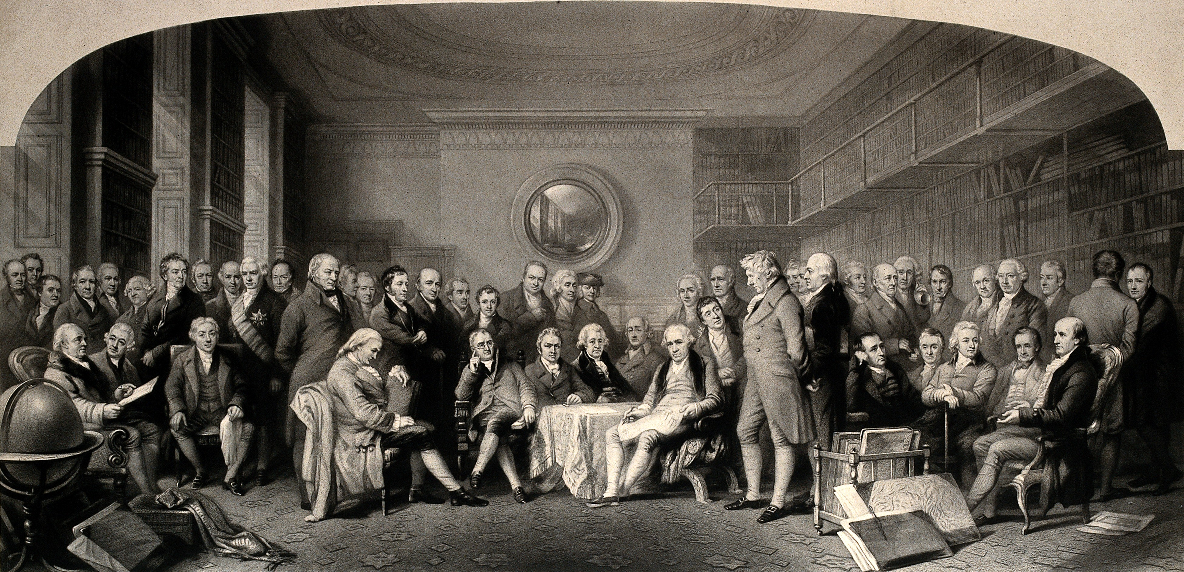 The Distinguished Men of Science of Great Britain 1807/8. William Walker and George Zobel 1862, after a drawing by Sir John Gilbert. Iconographic Collections Keywords: George J. Zobel; William Walker; John Gilbert; sir john gilbert; william walker; men of science; george zobel; F. Skill